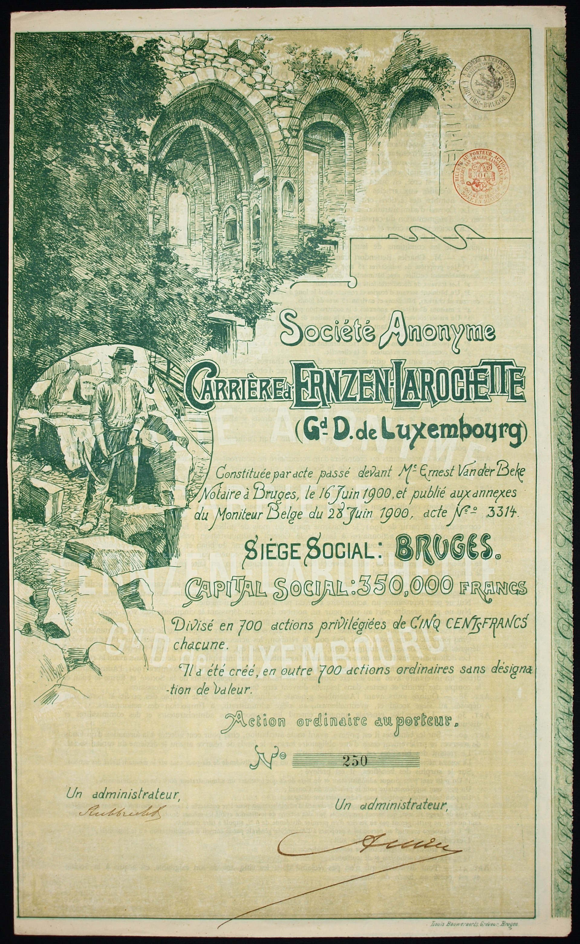 Share of the S.A. Carrière d’Ernzen- Larochette, issued 28. June 1900